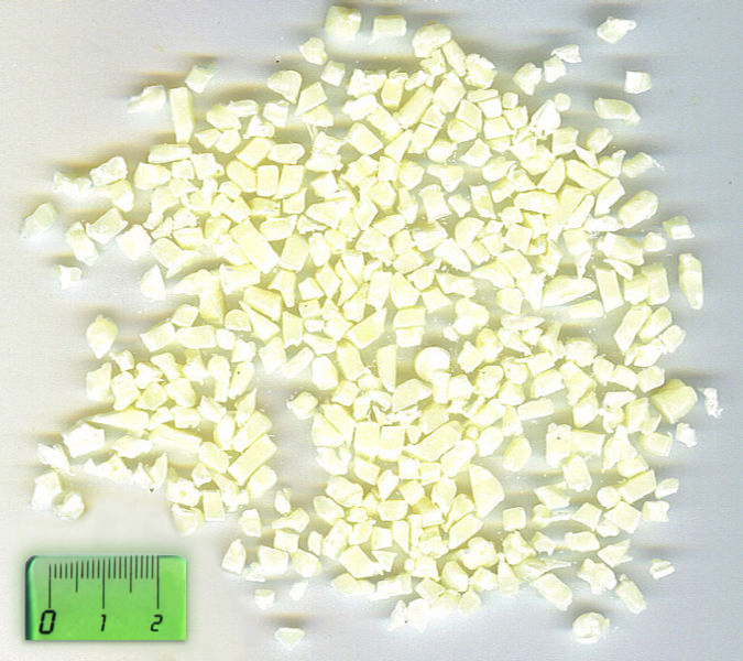 ABS grains compared with a centimeter ruler.